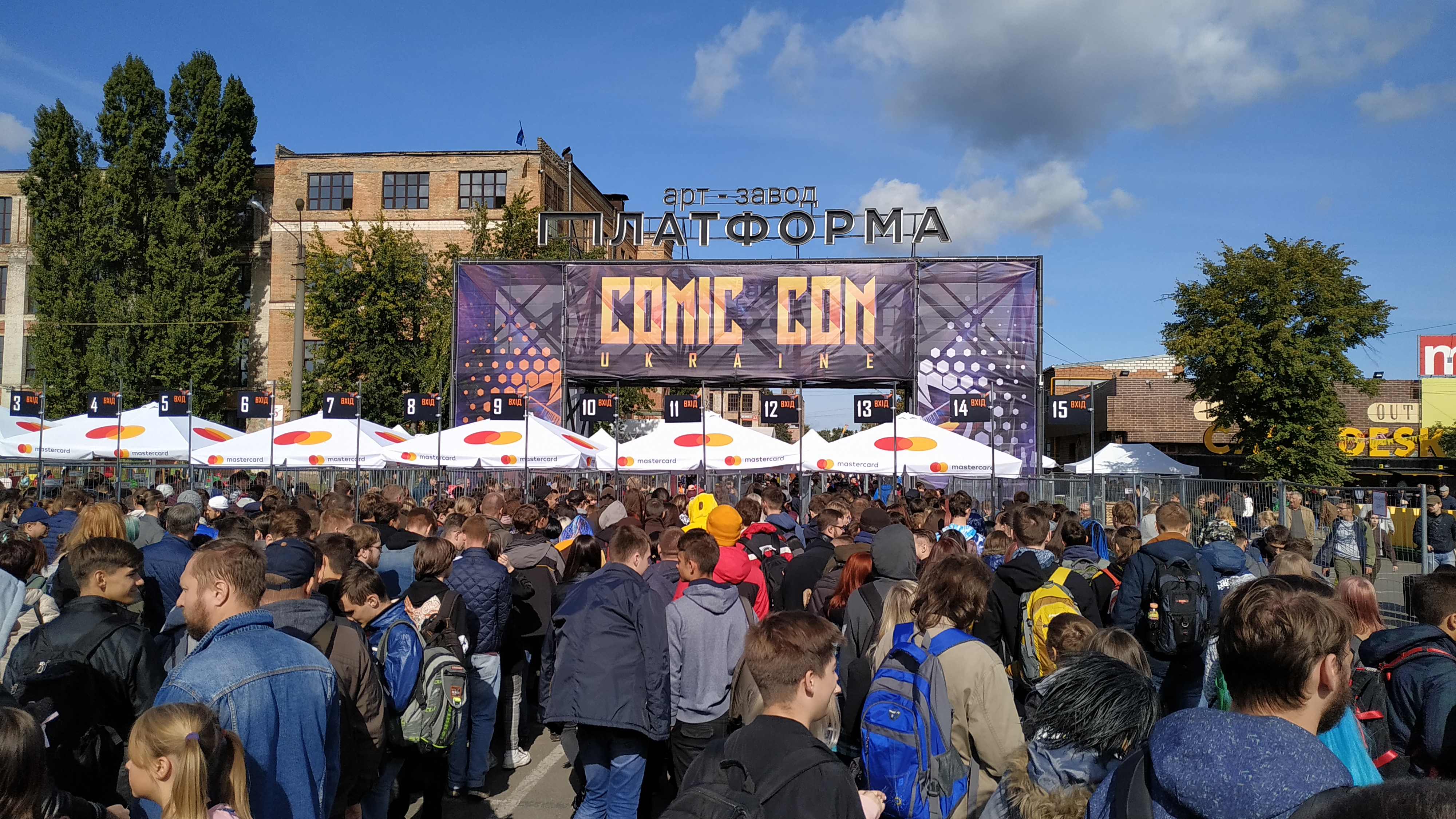 Entrance at «Comic Con Ukraine 2019»